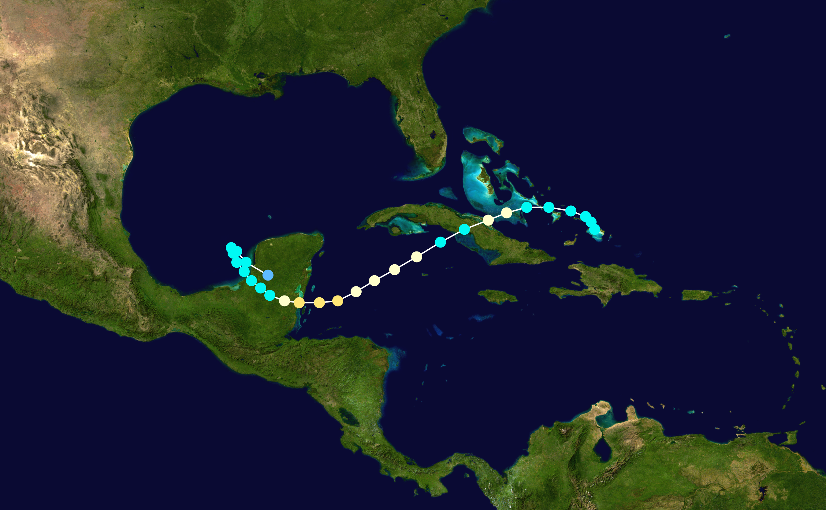 Track map of Hurricane Eleven of the 1942 Atlantic hurricane season. The points show the location of the storm at 6-hour intervals. The color represents the storm's maximum sustained wind speeds as classified in the Saffir-Simpson Hurricane Scale (see below), and the shape of the data points represent the nature of the storm, according to the legend below. Saffir–Simpson scale Tropical depression≤38 mph≤62 km/h Category 3111–129 mph178–208 km/h Tropical storm39–73 mph63–118 km/h Category 4130–156 mph209–251 km/h Category 174–95 mph119–153 km/h Category 5≥157 mph≥252 km/h Category 296–110 mph154–177 km/h Unknown Storm type Tropical cyclone Subtropical cyclone Extratropical cyclone / Remnant low / Tropical disturbance / Monsoon depression